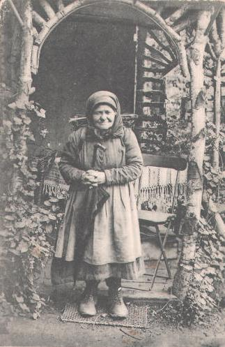 German woman pedlar.